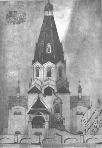 Project of the Memorial Church at the Bratskoye Cemetery in Kiev (1916) by Pyotr Fetisov (1877-1926)